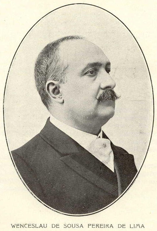 Picture of former Portuguese Prime Minister Wenceslau Pereira de Lima (1858—1919).